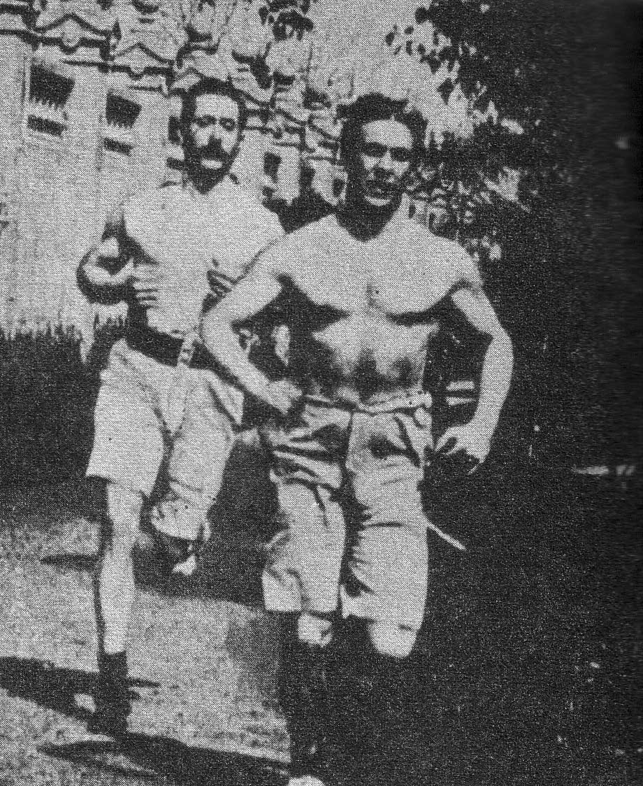 Jorge Newbery corriendo